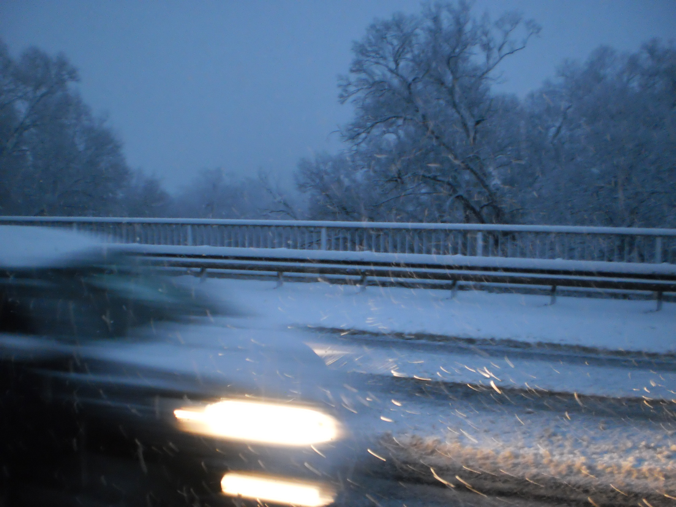 First snow in November on 2015-11-22, near the village of Bellnhausen (Fronhausen), Germany.